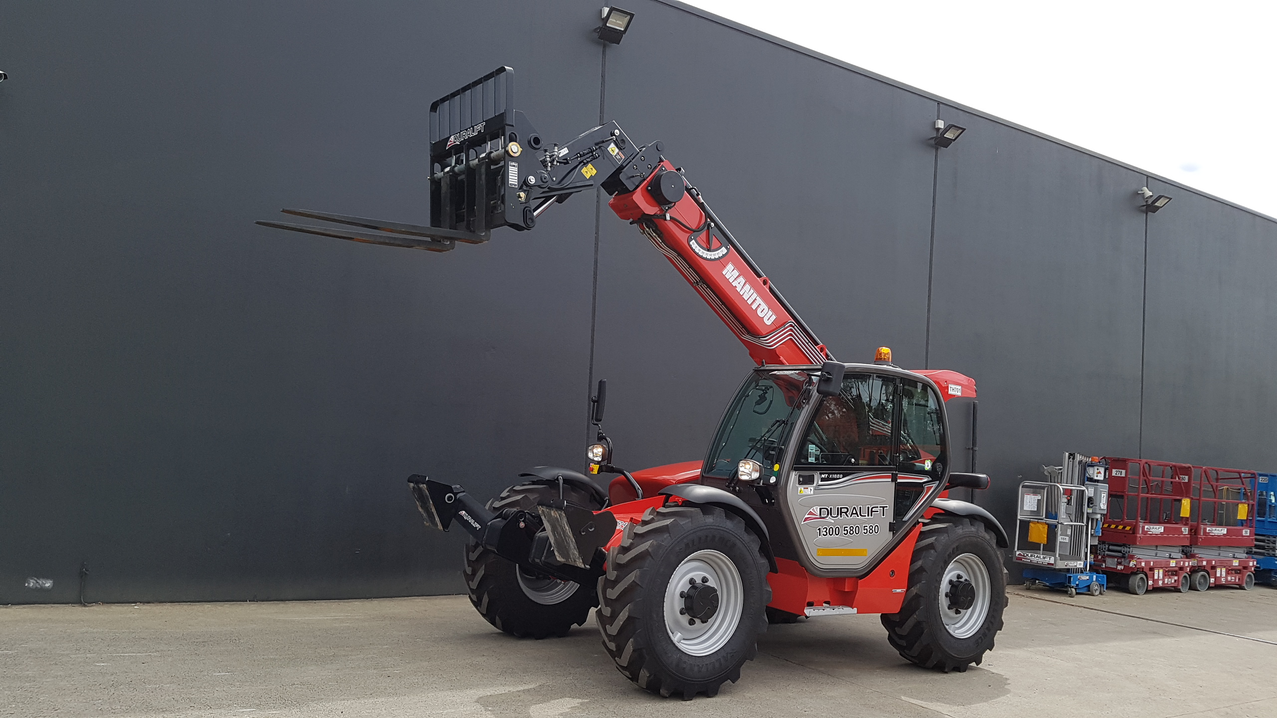 Telehandler 3 tonne with Stabilisers